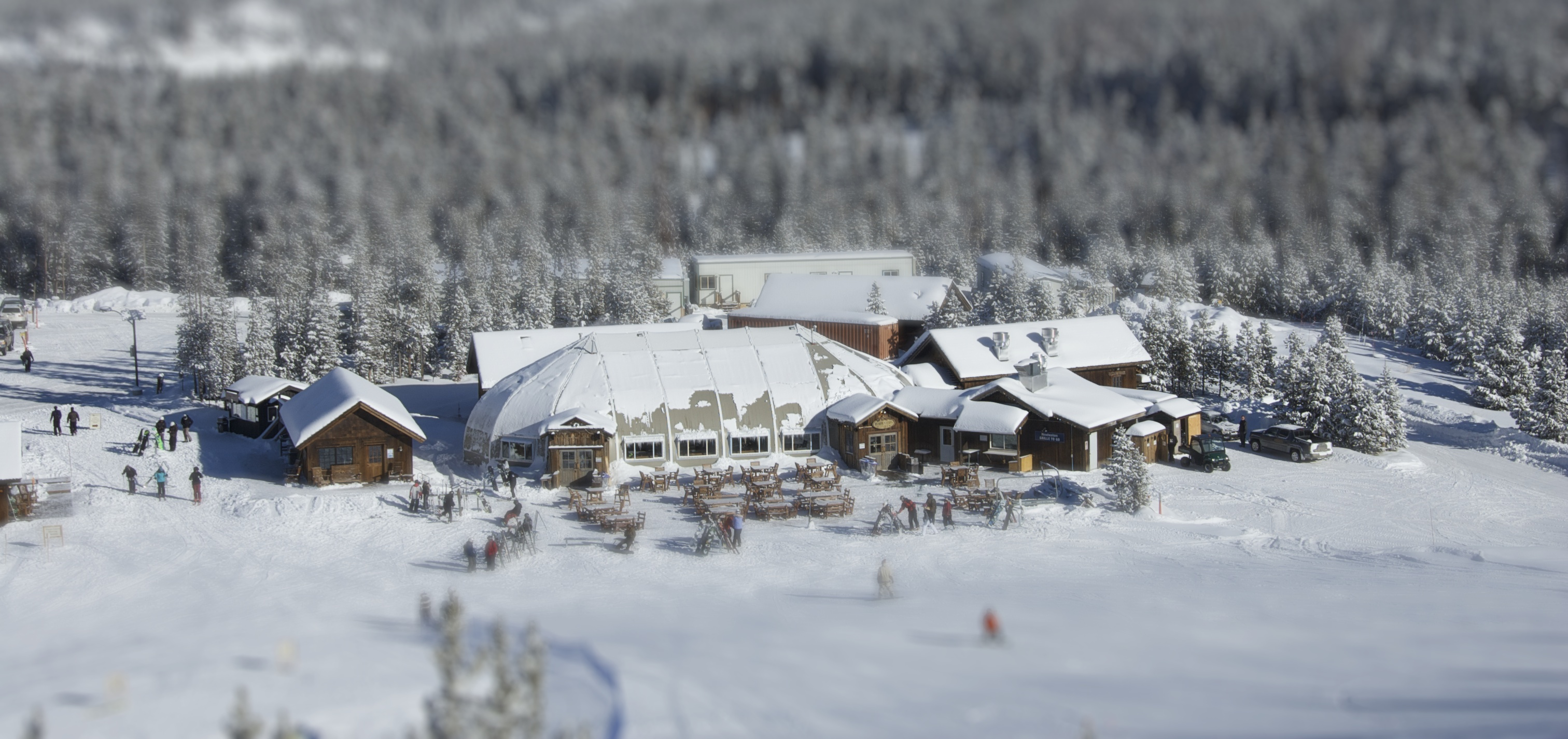 Miniature replica of Moonlight Basin, Big Sky, Montana